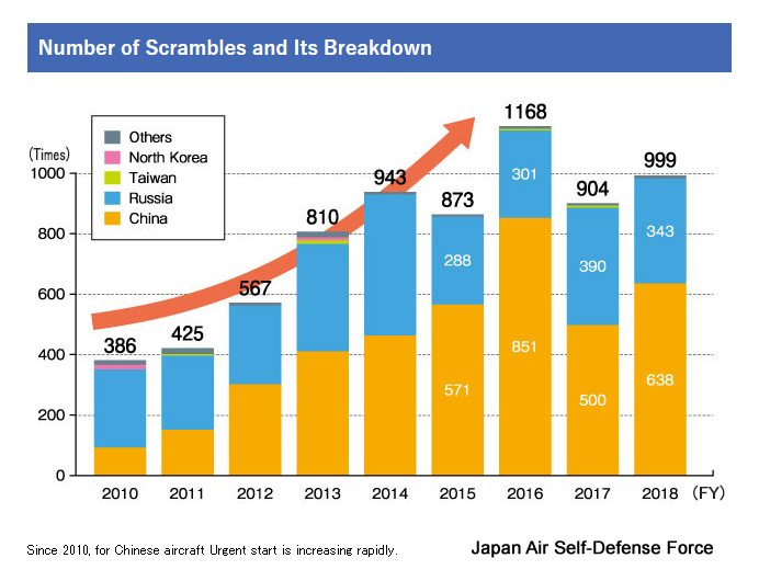 Number of Scrambles and its breakdown of the Japan Air Self-Defense Force (2010 - 2018). Since 2010, the number of scrambles to intercept Chinese aircraft has increased rapidly.